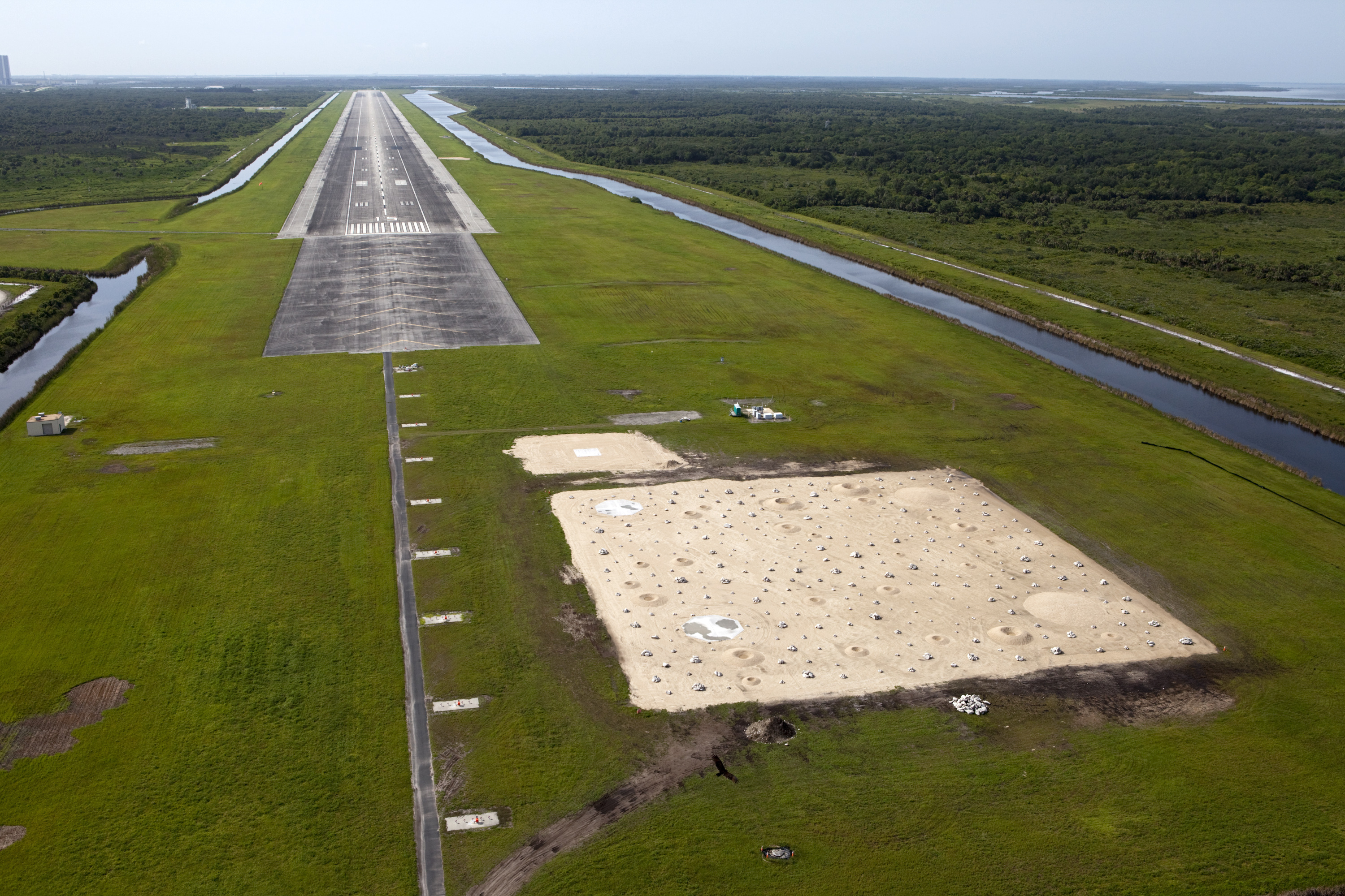 CAPE CANAVERAL, Fla. – This aerial view shows the north end of the Kennedy Space Center’s Shuttle Landing Facility. At the end of the runway is a rock and crater-filled planetary scape has been built so engineers can test the Autonomous Landing and Hazard Avoidance Technology, or ALHAT system on the Project Morpheus lander. Testing will demonstrate ALHAT’s ability to provide required navigation data negotiating the Morpheus lander away from risks during descent. Checkout of the prototype lander has been ongoing at NASA’s Johnson Space Center in Houston in preparation for its first free flight. The SLF site will provide the lander with the kind of field necessary for realistic testing. Project Morpheus is one of 20 small projects comprising the Advanced Exploration Systems, or AES, program in NASA’s Human Exploration and Operations Mission Directorate. AES projects pioneer new approaches for rapidly developing prototype systems, demonstrating key capabilities and validating operational concepts for future human missions beyond Earth orbit.